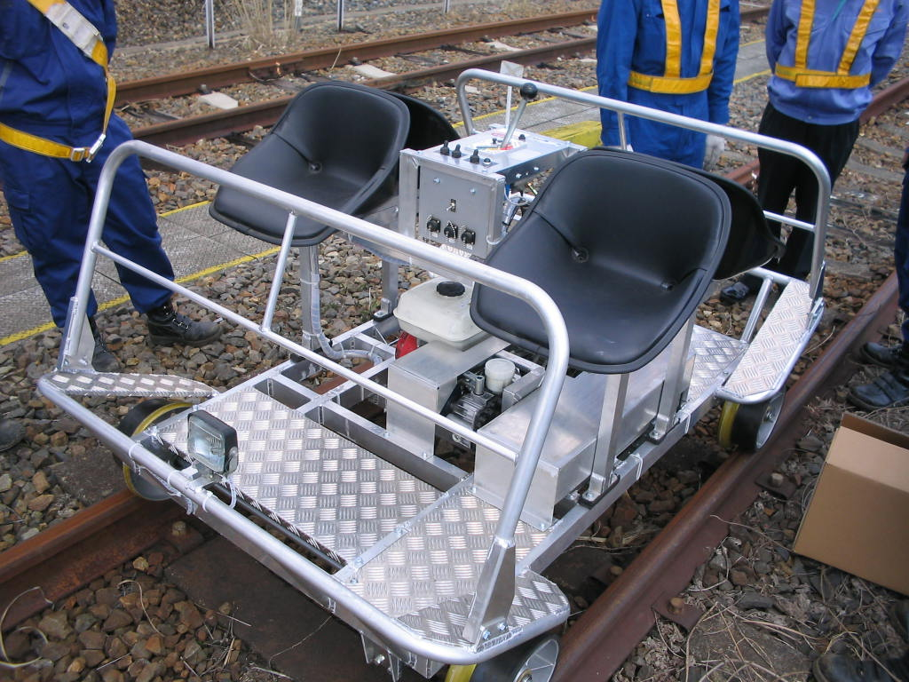 TOKO Rail bike "super cart RTC-5"